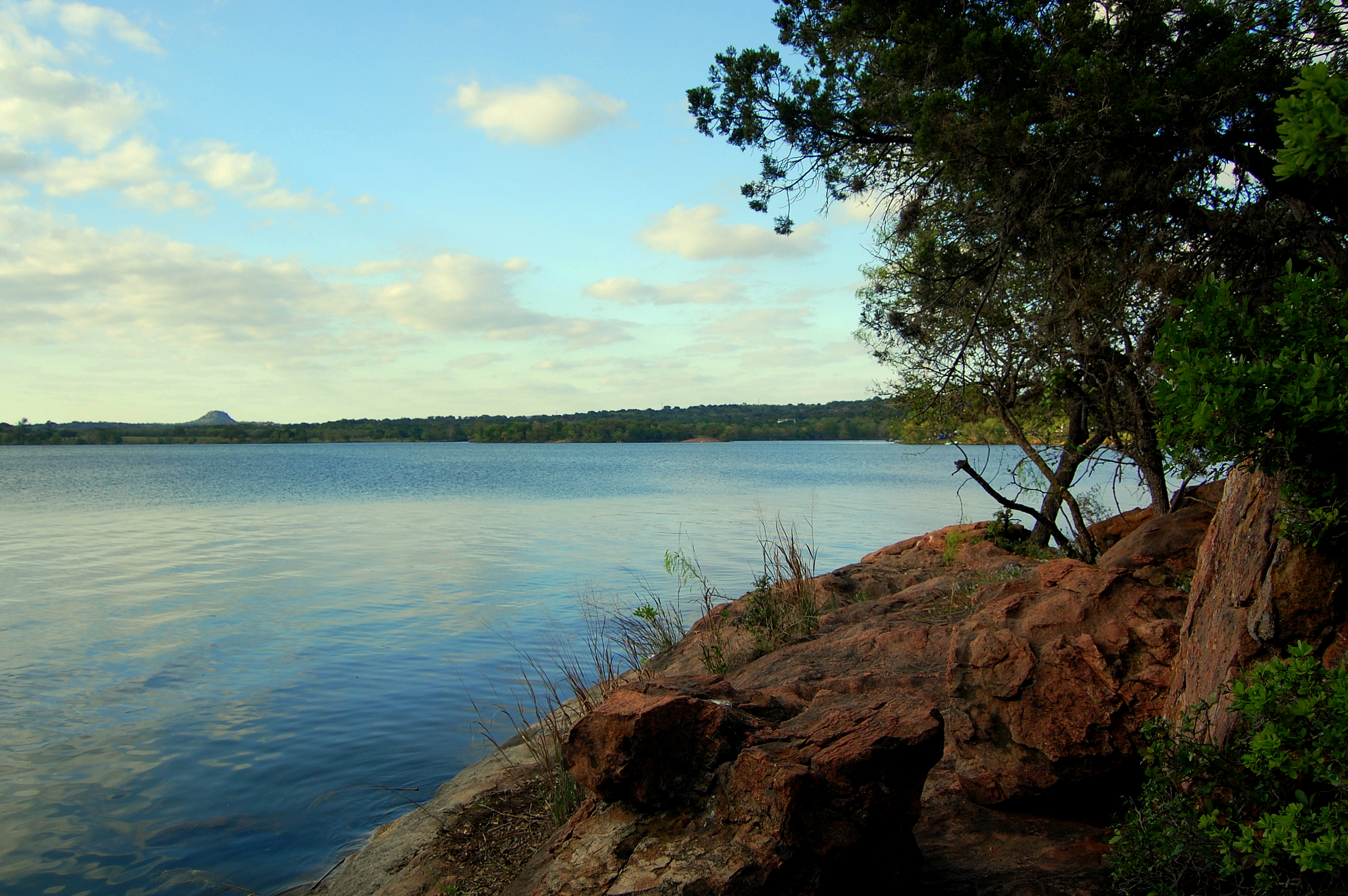 Bluff overlooking Inks Lake in the Texas Hill Country